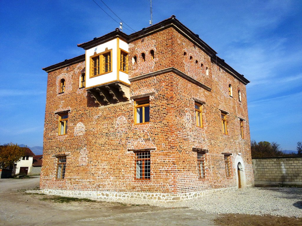 Kulla Haxhi Zeka, Leshan (Kosovo). Restored by CHwB (Sweden) in 2010. Financed by US Ambassadors Fund (US)